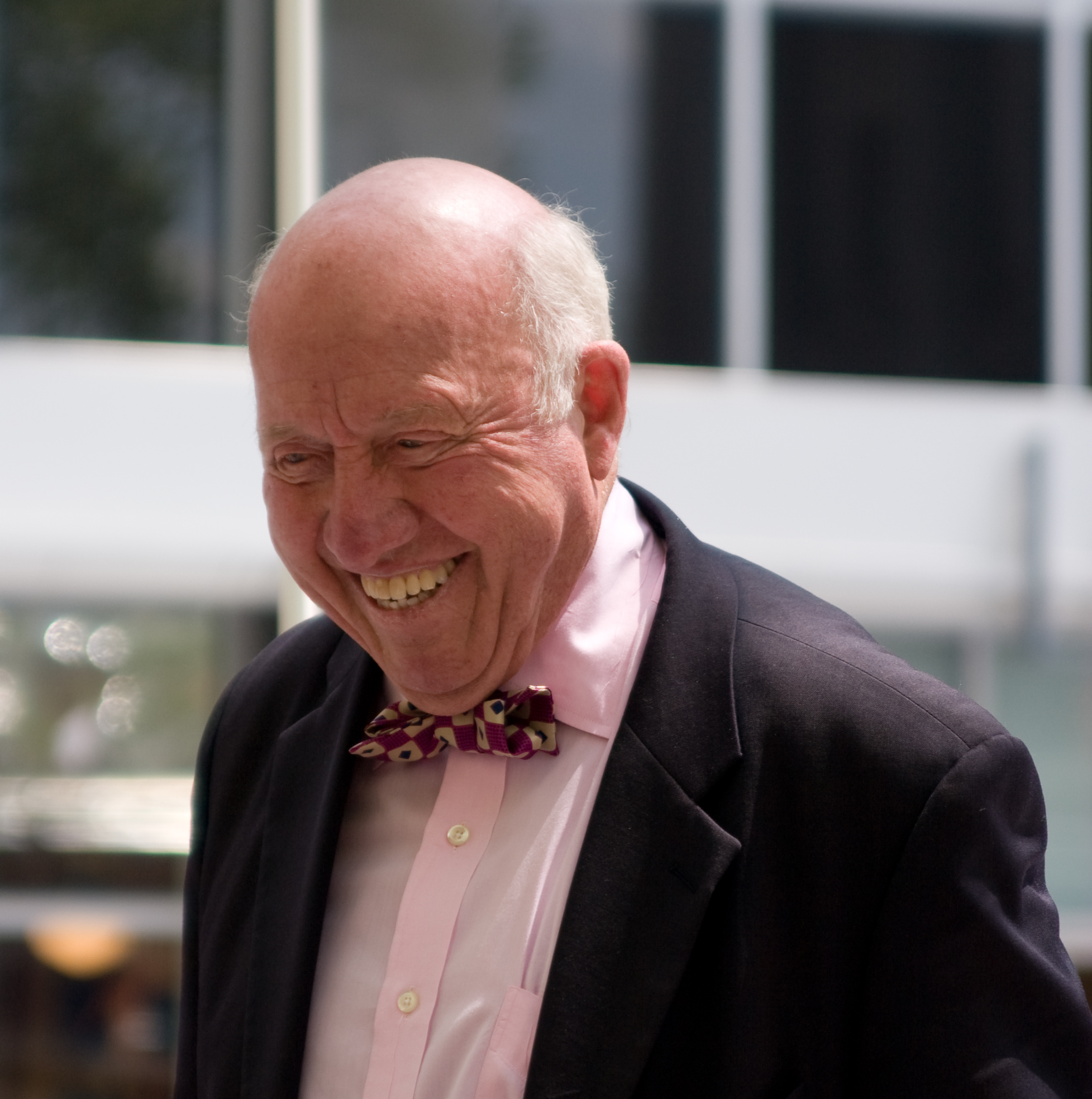 Bud Collins, as I photographed him leaving the opening ceremonies of the Sports Museum of America. The ceremony took place in Bowling Green park in lower Manhattan on May 6, 2008.